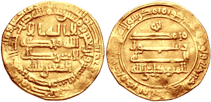 ISLAMIC, 'Abbasid Caliphate. Al-Mutawakkil. AH 232-247 / AD 847-861. AV Dinar (20mm, 3.90 g, 11h). Misr (Cairo) mint. Dated AH 242 (AD 856/7). Citing heir Abu 'Abd Allah by his future caliphal title al-Mu'tazz. AGC I 158De; Album 229.3. VF, slightly wavy flan, weak in areas. Scarce.